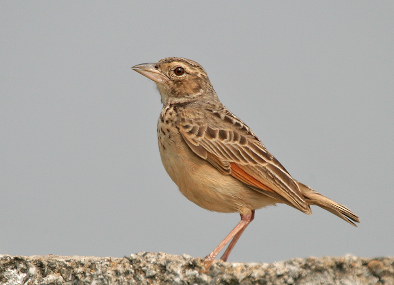 Bengal bushlark Mirafra assamica in Kolkata, West Bengal, India.